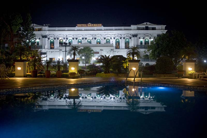 A Snap shot of Shanker by Edwin.